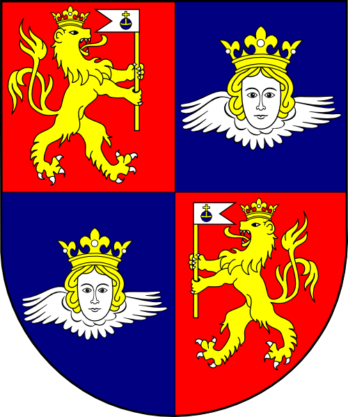 Coat of arms (shield only) of Ferenc Barkóczy, bishop of Eger (1744 - 1761), archbishop of Esztergom (1761 - 1765). Tinctures based on: and